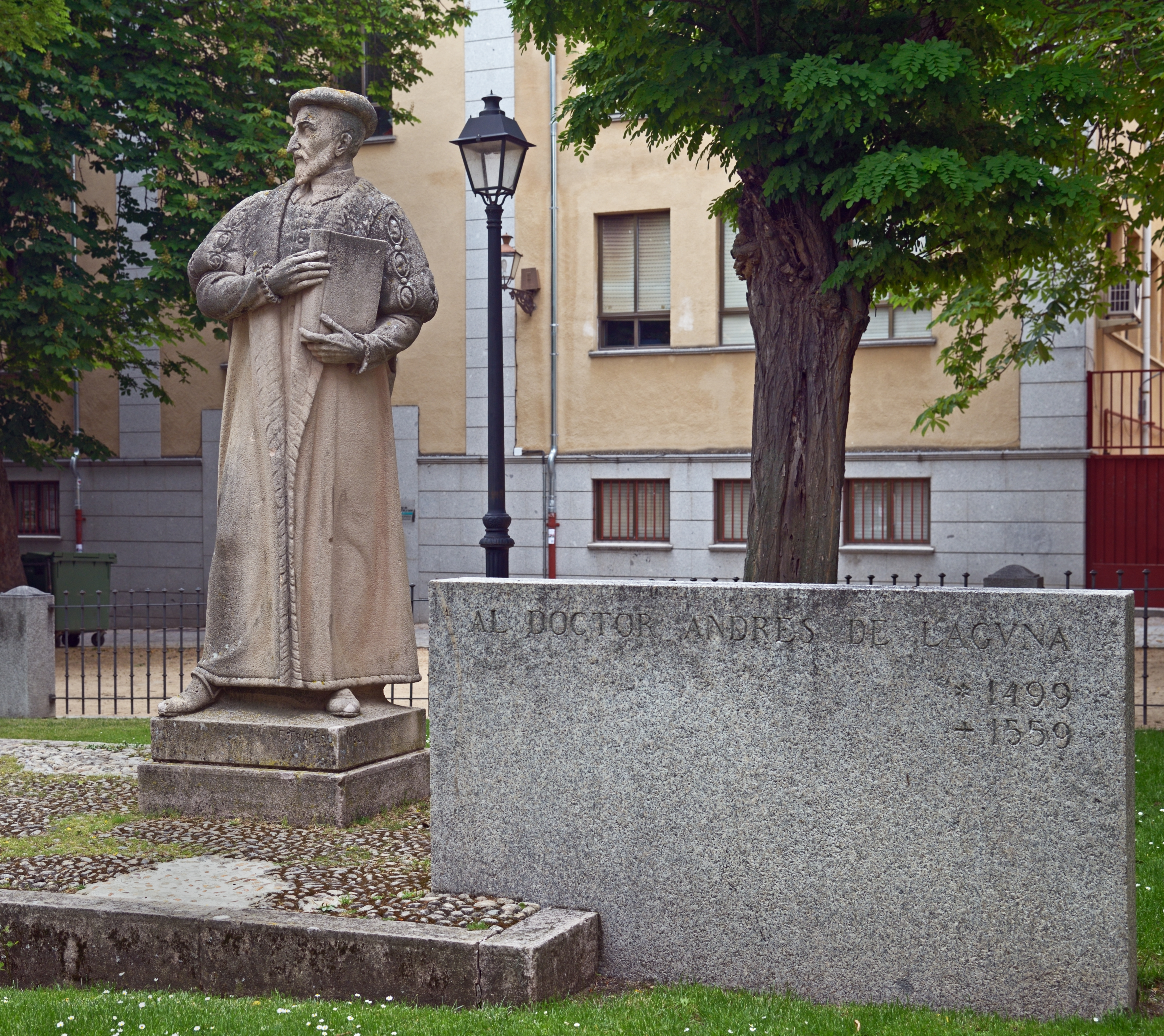 Monument to Andrés Laguna in Segovia, Spain